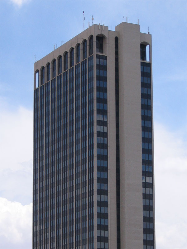 Chase Tower (Amarillo) in Amarillo, Texas, USA. It is once originally called SPS Tower and BankOne Center and is located along 6th Ave, once signed as Route 66.